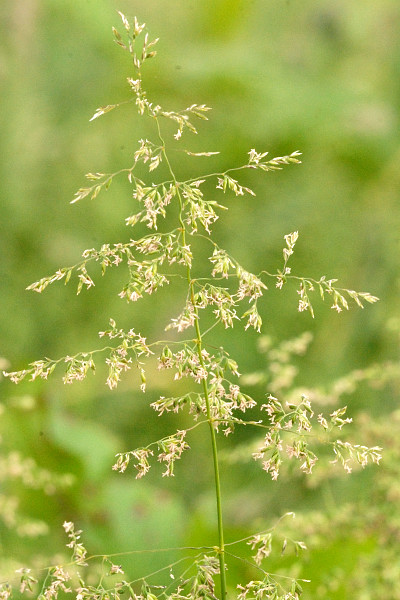 Poa nemoralis from Commanster, Belgian High Ardennes .